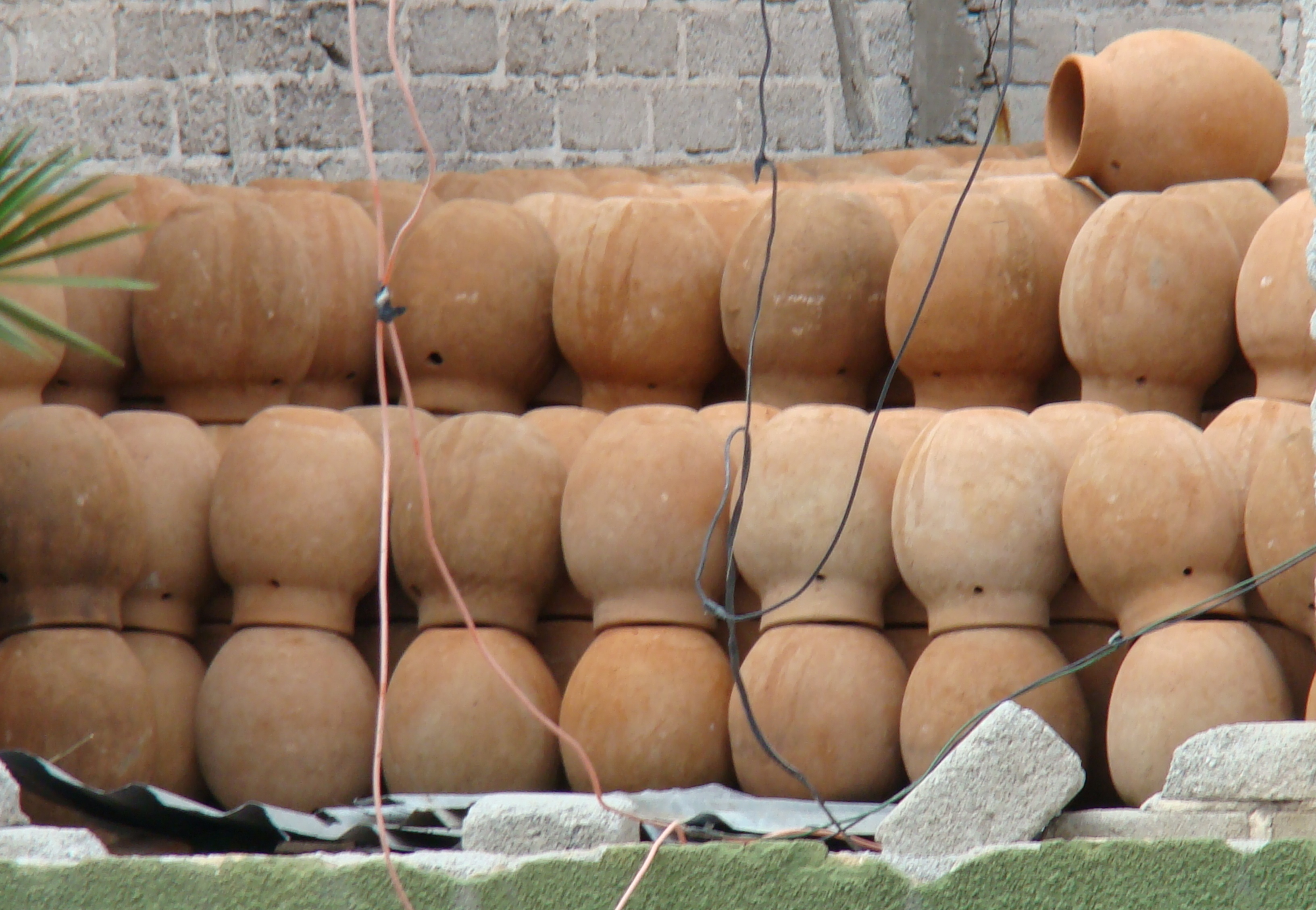 Clay pots with a semi-spheric bottom, made for manufacturing traditional Mexican pinatas. Sierra Gorda, Queretaro, Mexico.